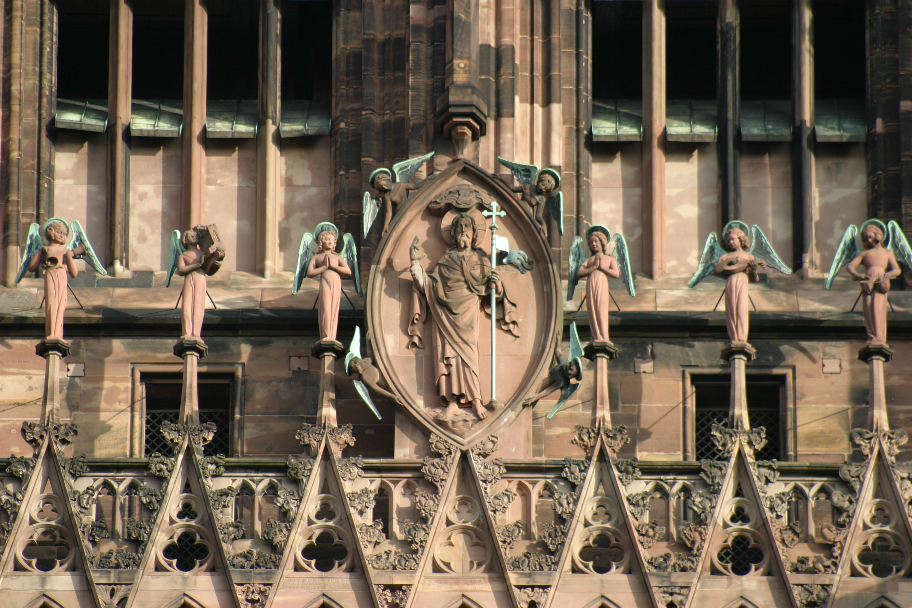 This image was taken at Strasbourg Cathedral, Strasbourg.